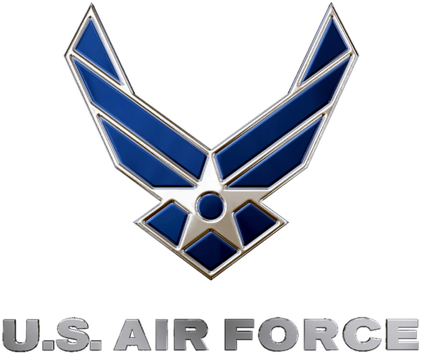 United States Air Force logo, blue and silver.